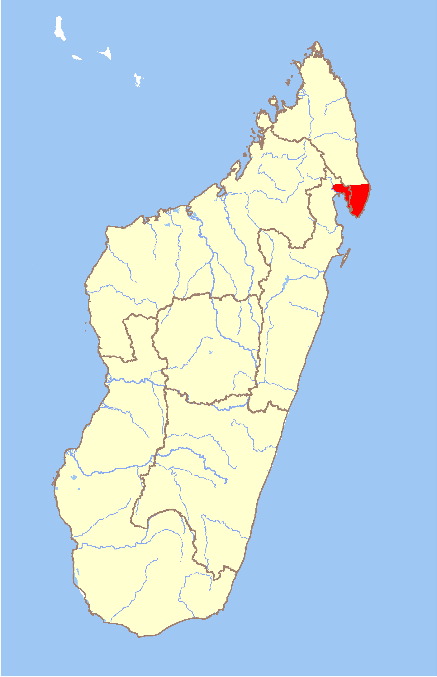 Distribution of the Red Ruffed Lemur (Varecia rubra) in Madagascar, based on map from "Lemurs of Madagascar, 2nd edition" by Russell A. Mittermeier, et al.